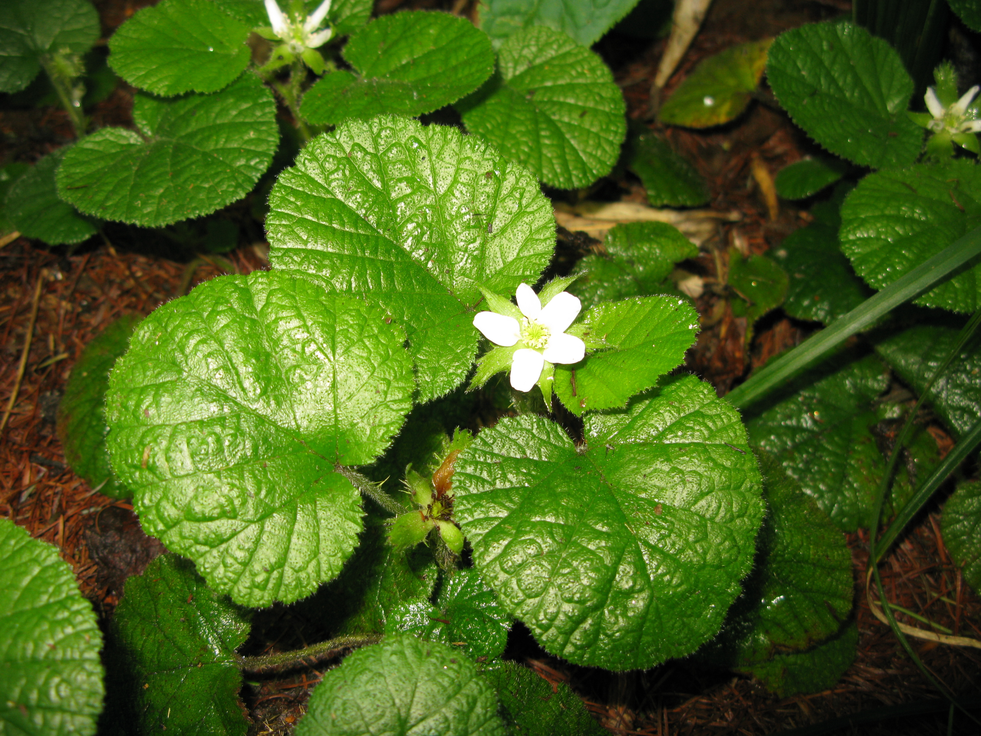 Rubus pectinellus, Aizu area, Fukushima pref., Japan